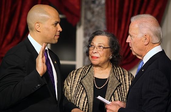 In October 2013, Cory won a special election to represent New Jersey in the United States Senate. In November 2014, he was re-elected to a full six-year term.